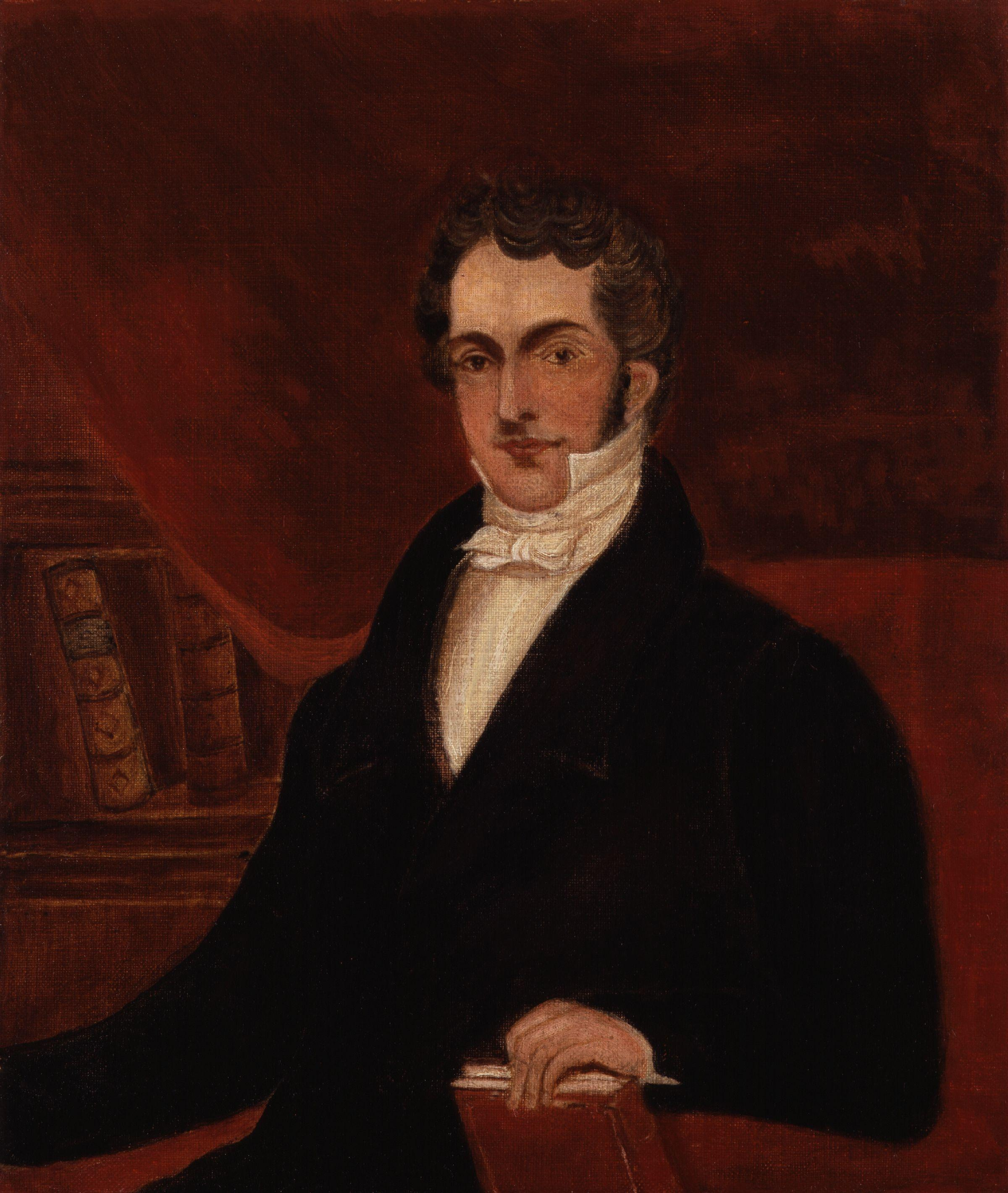 Thomas Forbes Walmisley, by unknown artist. All images in this batch are listed as "unknown author" by the NPG, who is diligent in researching authors, and was donated to the NPG before 1939 according to their website.